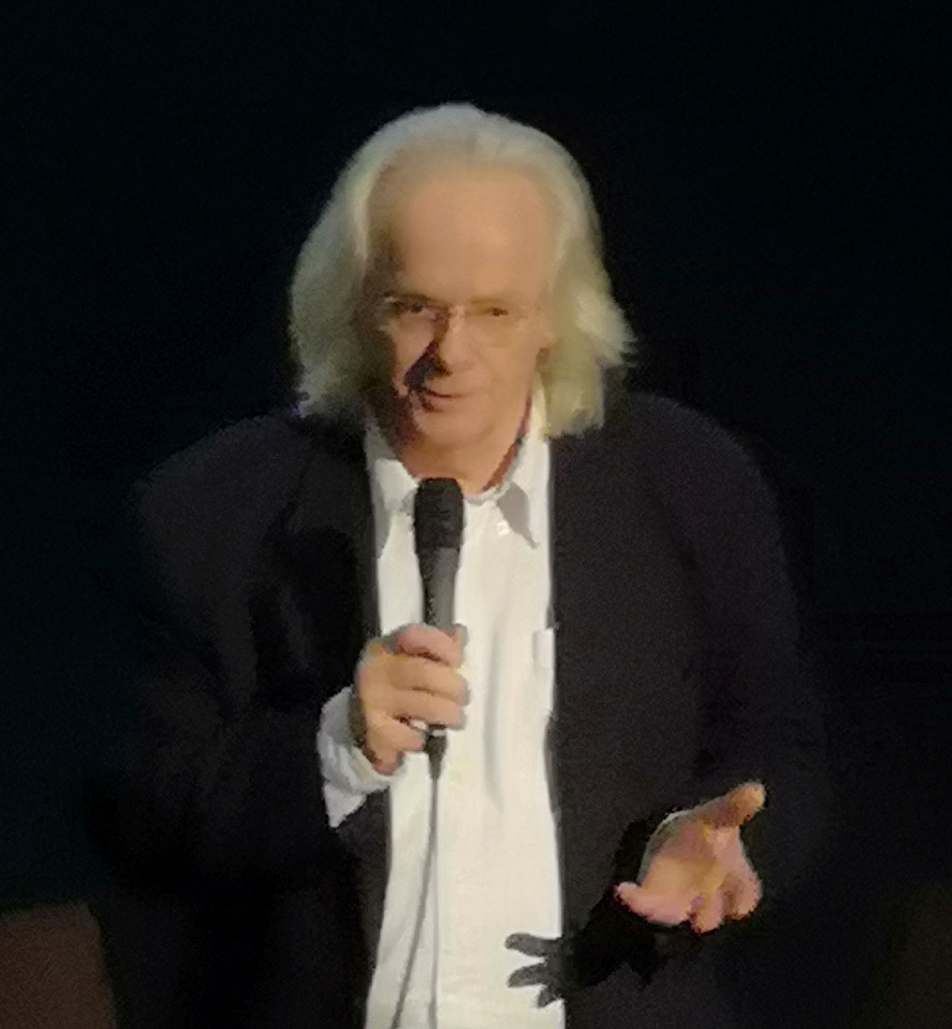 Andrej Zdravič, filmmaker, prior to the screening of the Ocean Cantos film series. Kinoteka (Ljubljana), 5 April 2019.